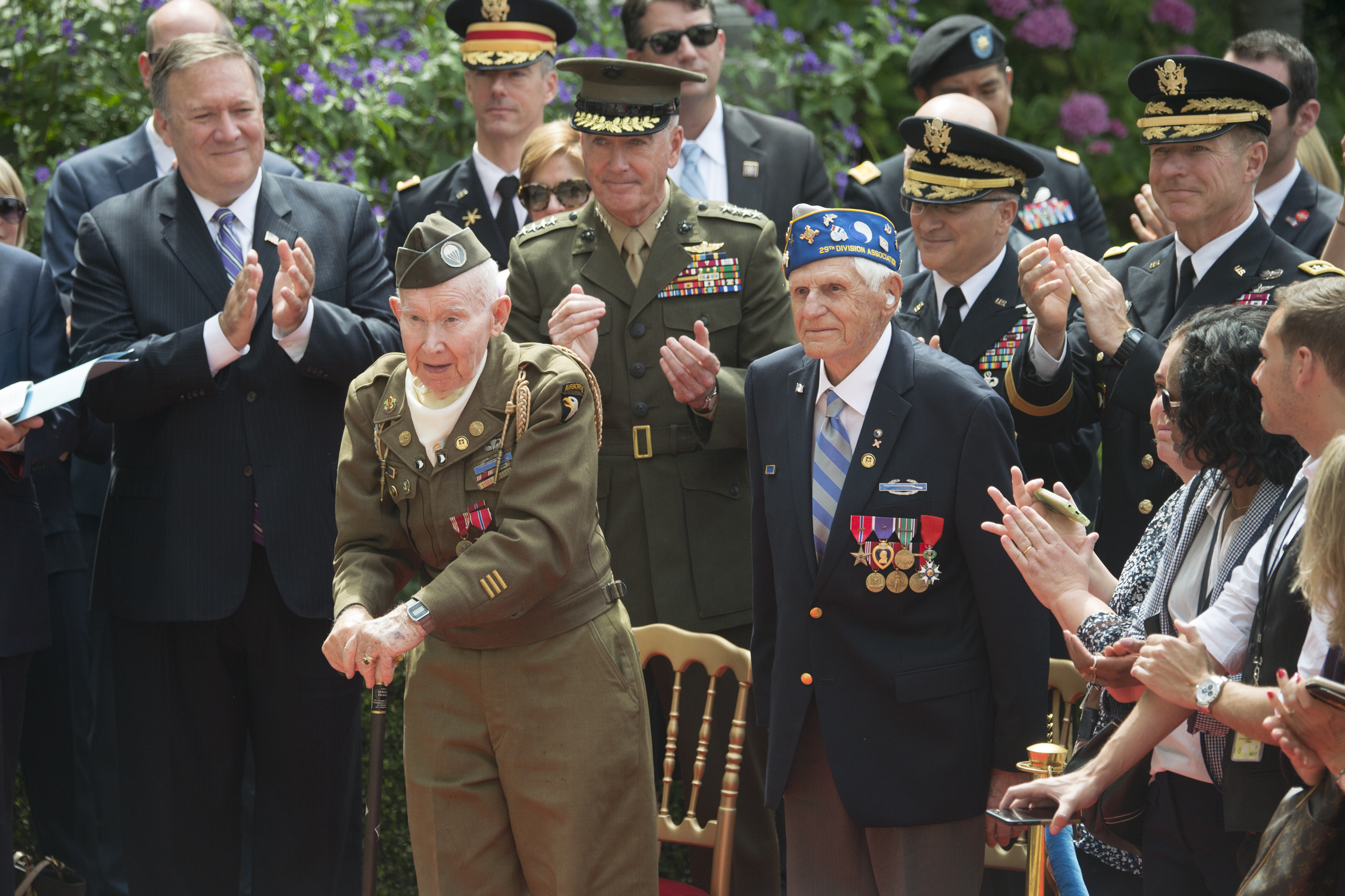 World War 2 veterans are honored in a speech by President Donald J. Trump at the U.S. Chief of Mission to France's residence in Paris on the Eve of Bastille Day July 12, 2017. This year, the U.S. will lead the parade as the country of honor in commemoration of the centennial of U.S. entry into World War 1 - as well as the long-standing partnership between France and the U.S. (Dept. of Defense photo by Navy Petty Officer 2nd Class Dominique A. Pineiro/Released) Unit: Office of the Chairman of the Joint Chiefs of Staff DVIDS Tags: USMC; France; Paris; Chairman; Joseph F. Dunford; Joint Staff; Navy; Air Force; Marine Corps; Marines; Army; parade; Bastille Day; Joseph F. Dunford Jr.; General Dunford; Joe Dunford; Bastille; 19th CJCS